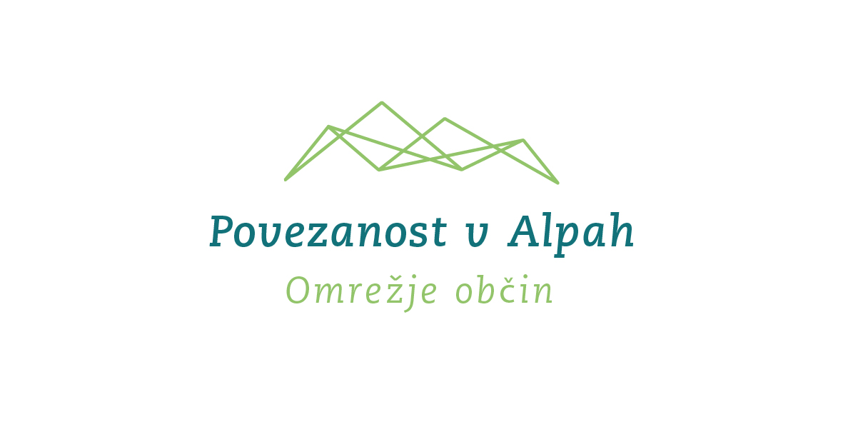 Omrežje občin "Povezanost v Alpah"